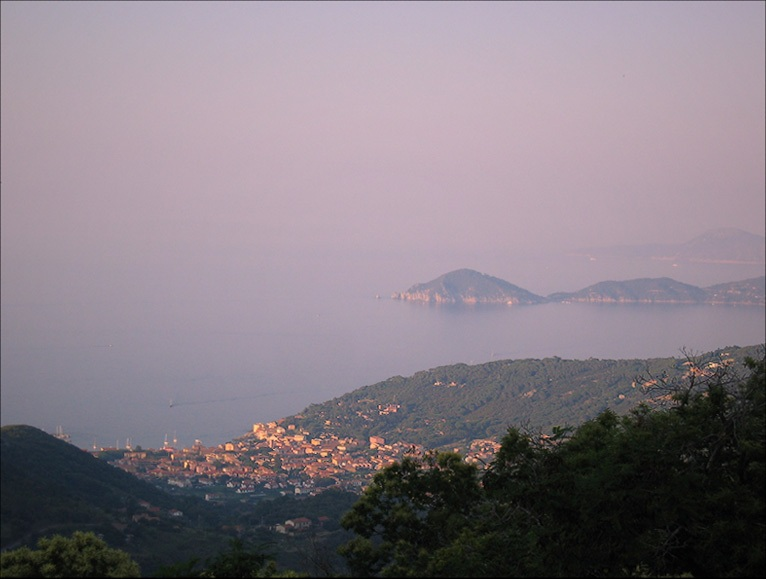 General view of Marciana Marina (Elba Isle, Italy) with the Enfola peninsula on the backside